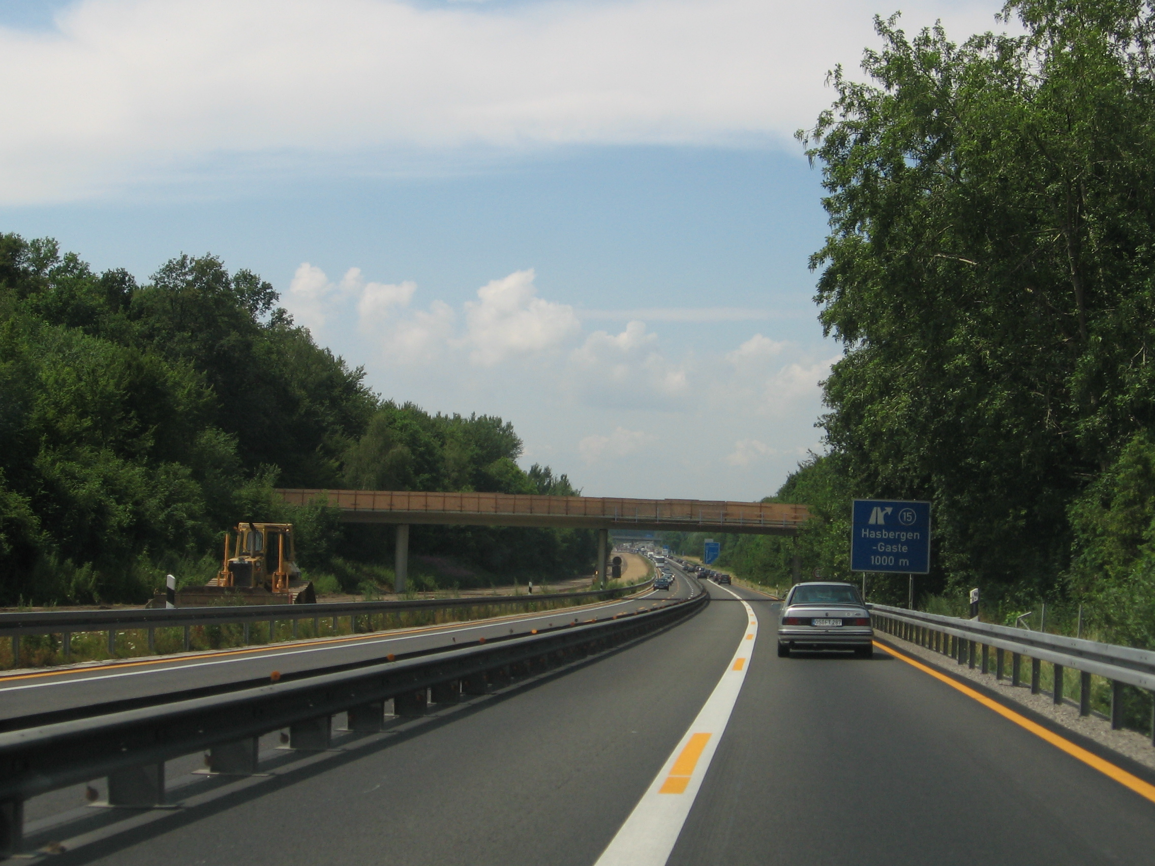 Road construction near Osnabruck, Germany. Showing 4-0 system